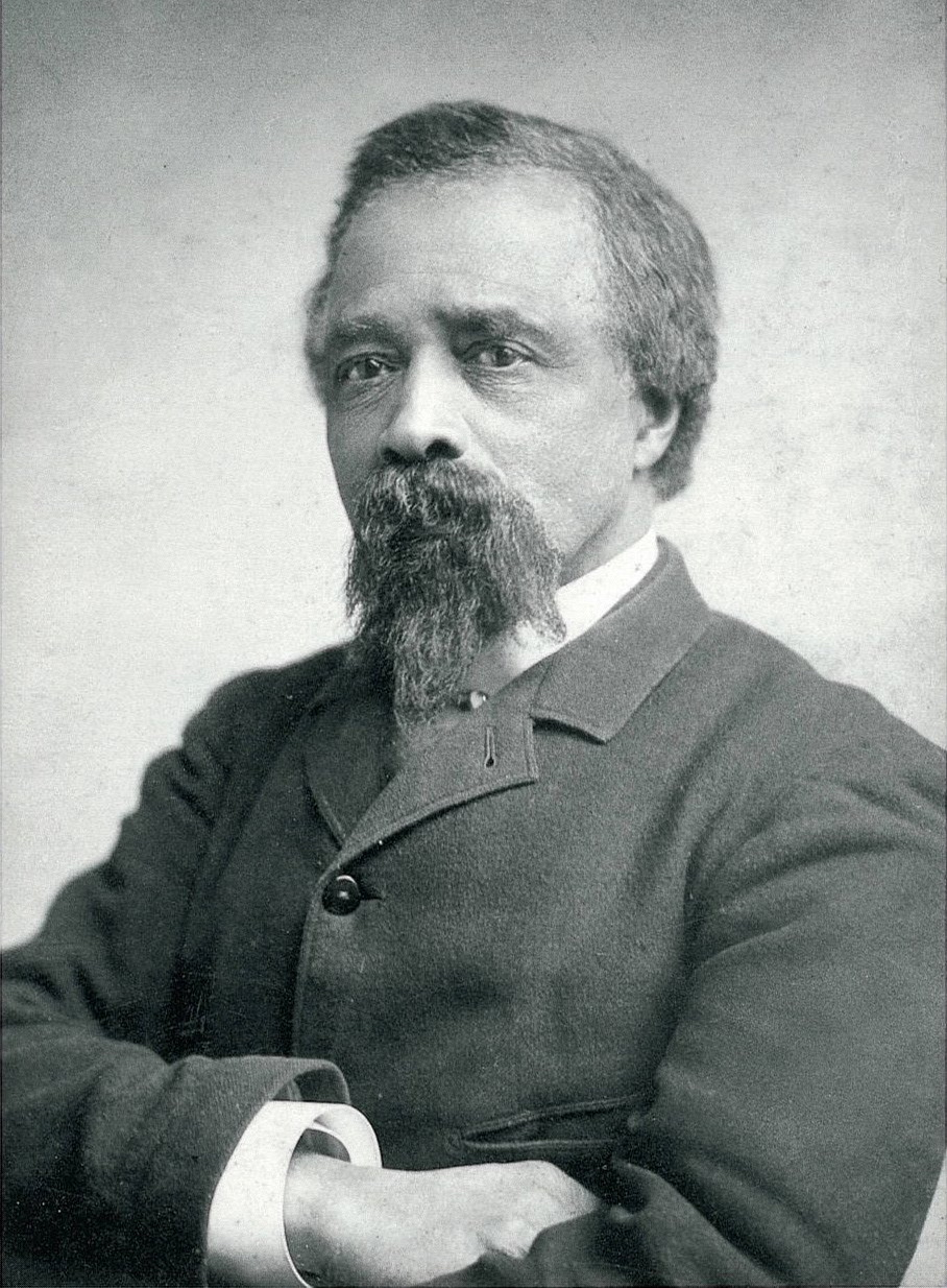 Edward M. Bannister Painter Edward Bannister was born in New Brunswick, Canada in 1828. He was a founder and active member of The Providence Art Club [1] institution The Rhode Island Black Heritage Society [2]